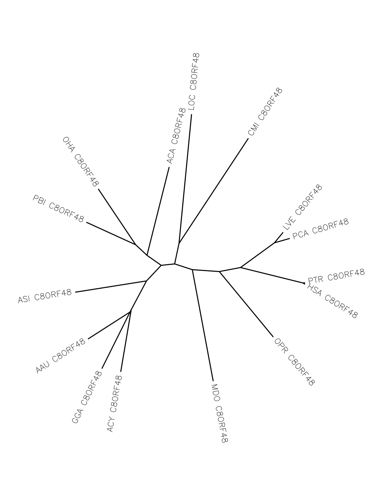 Made utilizing the program ClustalW DrawTree on Biology WorkBench.